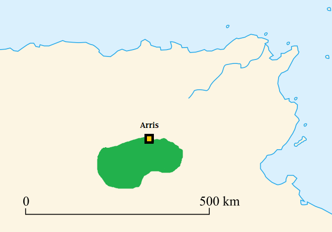 Map of the Kingdom of the Aures, a medieval Berber kingdom in North Africa. Based on link and using link 2 as a basemap